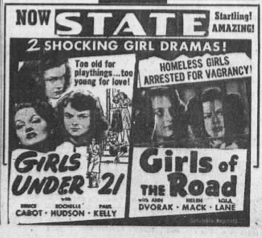 State Theater advertisement for the American films Girls Under 21 (1940) and Girls of the Road (1940) - 1 Apr. 1951 Morning Call, Allentown PA